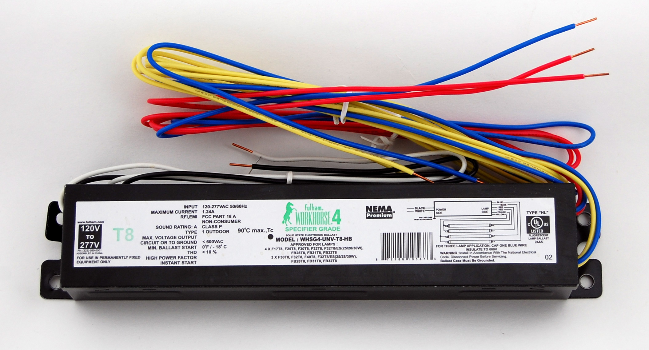 Electronic ballast to power 4x F32T8 lamps (and other combinations) by Fulham. Universal voltage (self adjusting to anything between 120VAC and 277VAC)